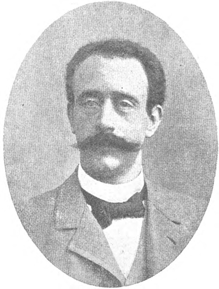 nameMr. H. P. MARCHANT political affiliationFree-thinking Democratic League positiemember of the House of Representatives of the Netherlands districtDeventer